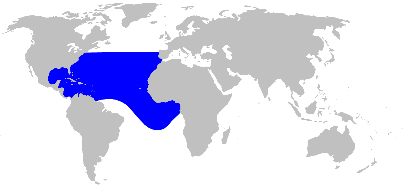 Distribution of Mesoplodon europaeus